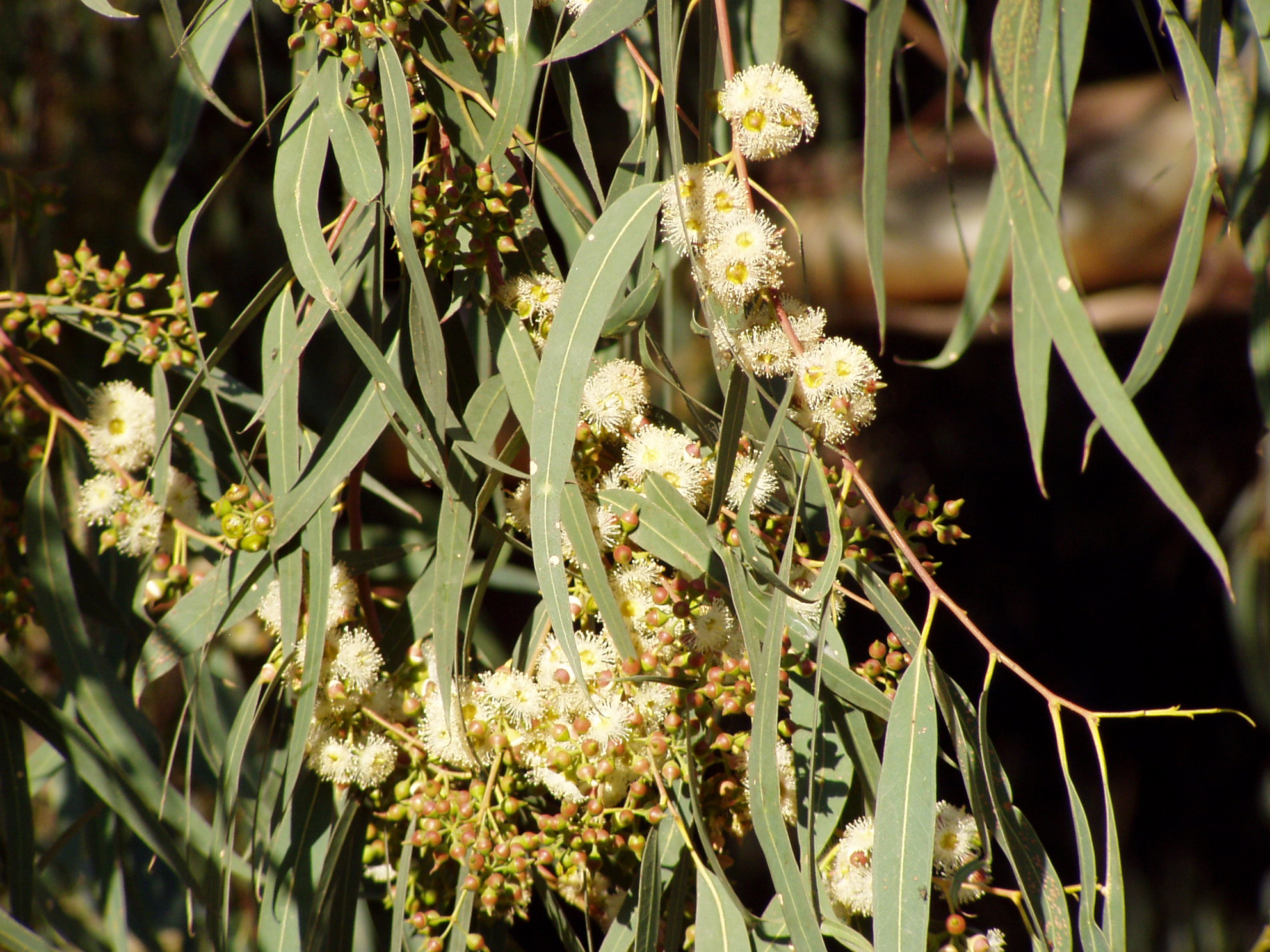 Eucaliptus rostrata synonym of Eucalyptus camaldulensis Dehnh